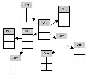 The snowflake schema